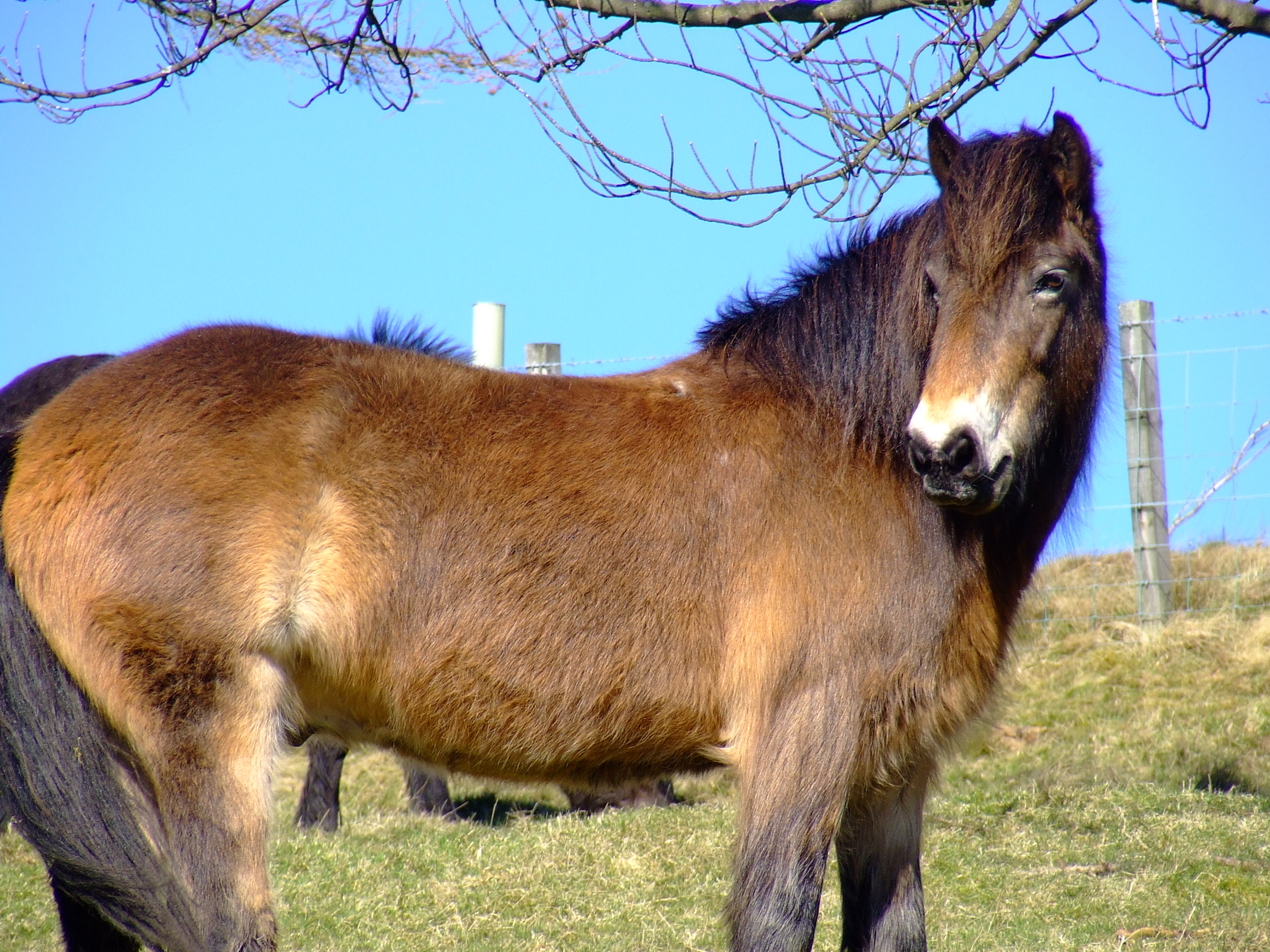 Exmoor Pony in the Pentland Hills, Scotland